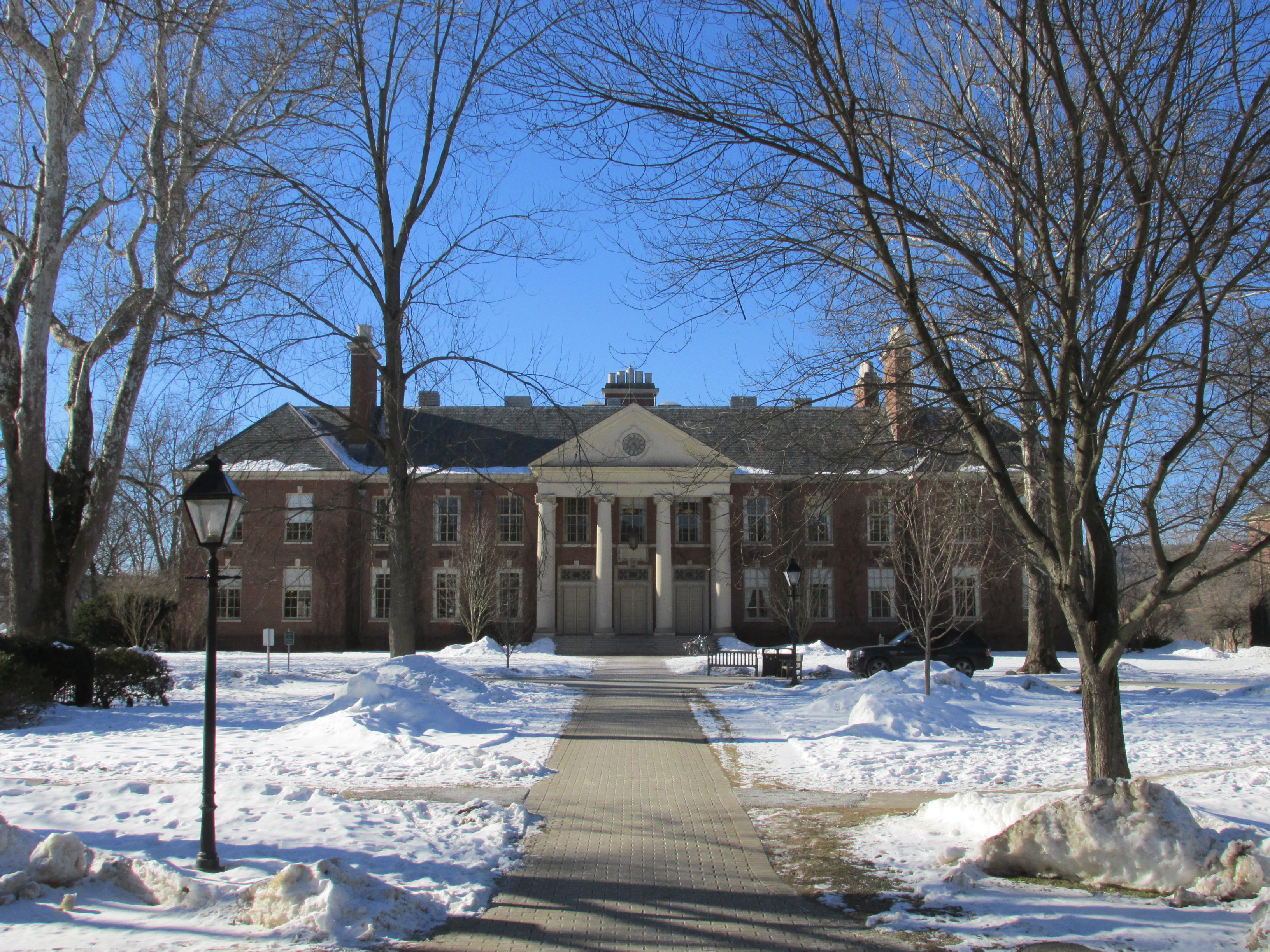 Deerfield Academy in Winter, Deerfield Massachusetts